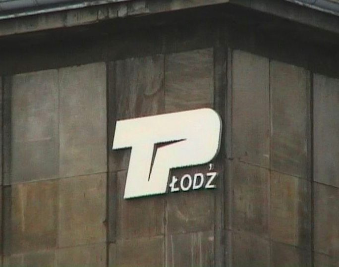 Historical logo of TP Łódź - Polish Television (TVP) Łódź from the PRL period.